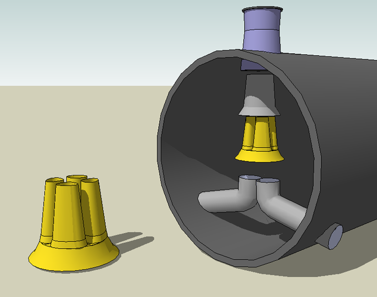 Kylchap steam locomotive exhaust system Personal 3D diagram modeled with Google SketchUp